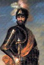 Afonso, 1st Duke of Braganza